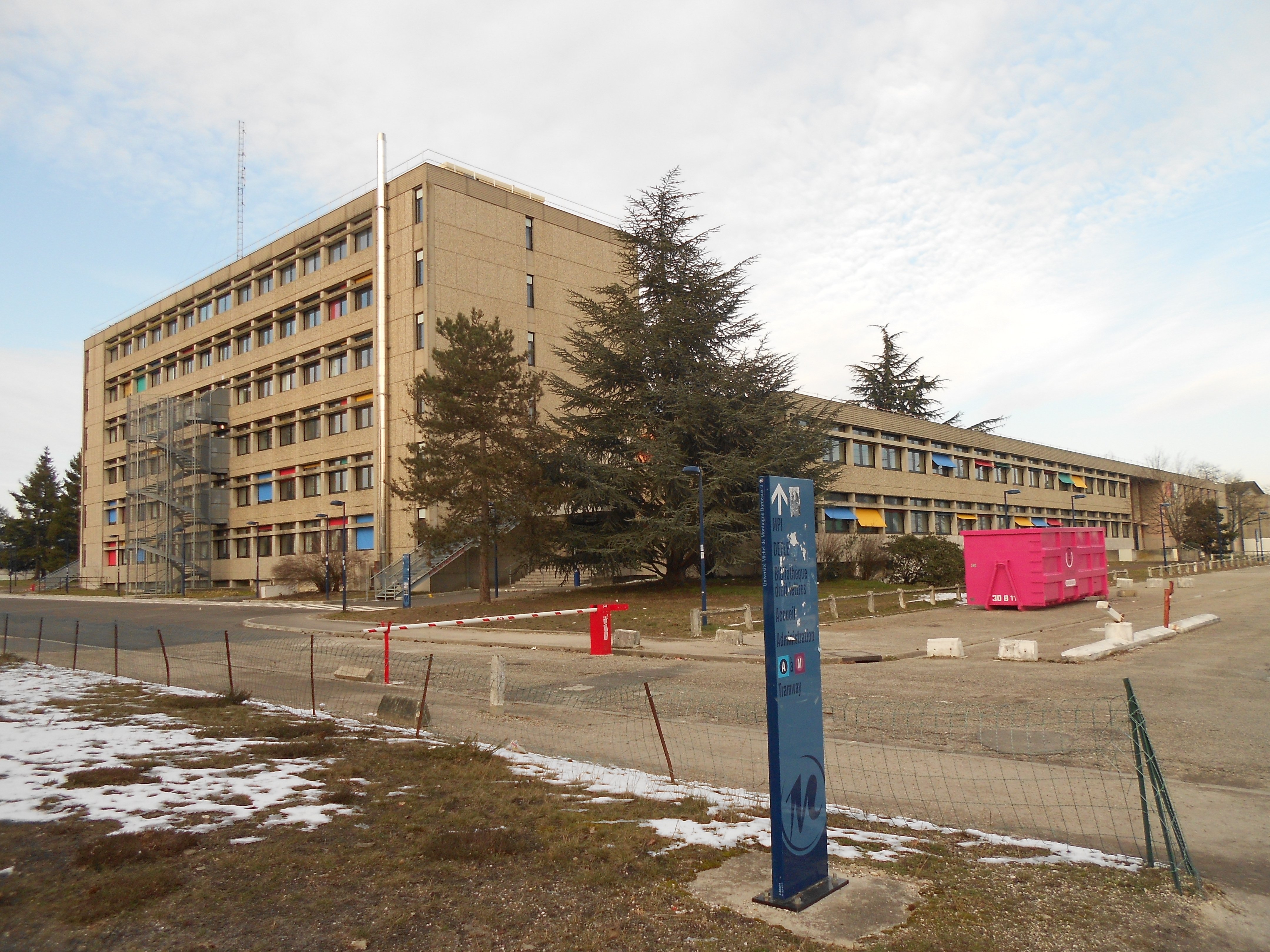 Buildings I (left) and J (right) of Michel de Montaigne University (Bordeaux 3) in February 2012.